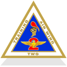 Logo of Training Air Wing TWO